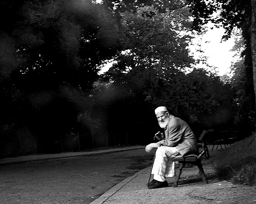 Old man in Paris park Buttes Chaumont. 2008